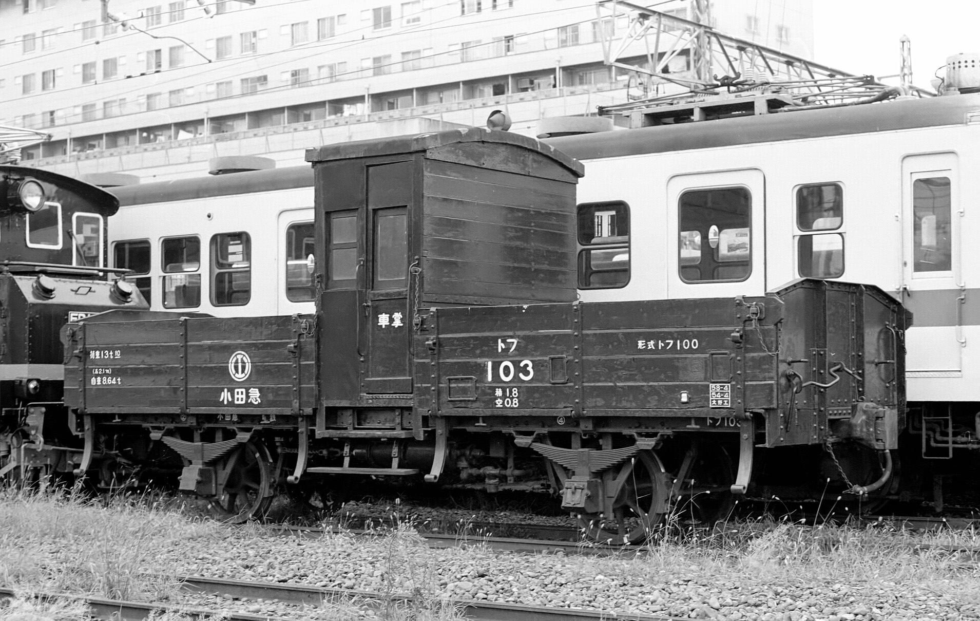 Odakyu Erectric Railway ToFu100 type freight car at Sobudaimae station in 1979.